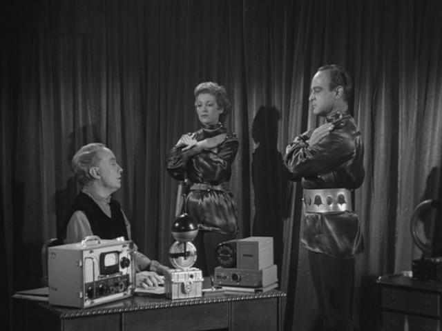 Film: Plan 9 from Outer Space (1959) Director: Ed Wood, Jr. Actors Portrayed: John Breckinridge, Joanna Lee, Dudley Manlove The original 1959 version of this film is public domain, although there may be a copyright on the musical score